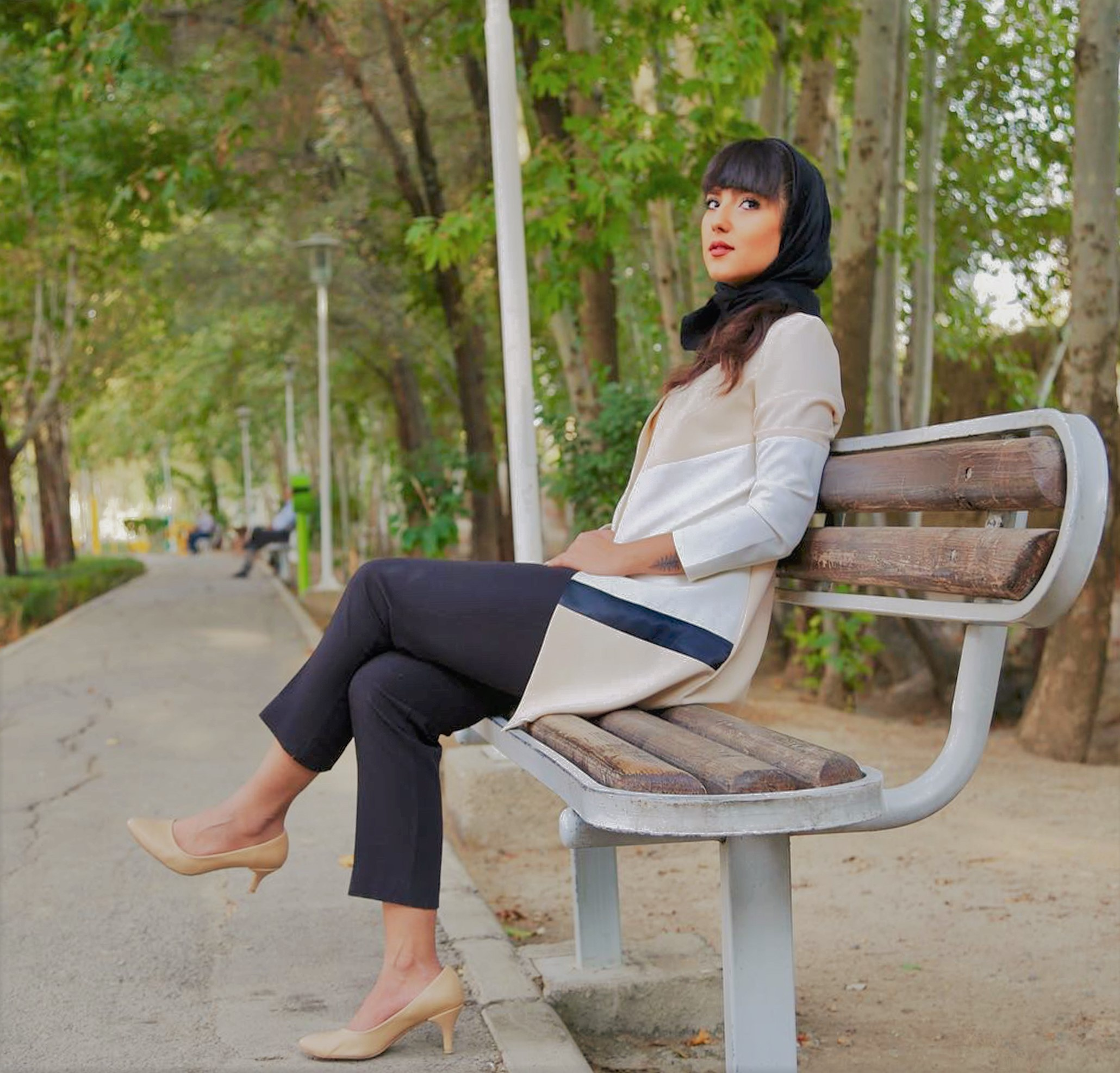 An Iranian woman in Isfahan, 2018.